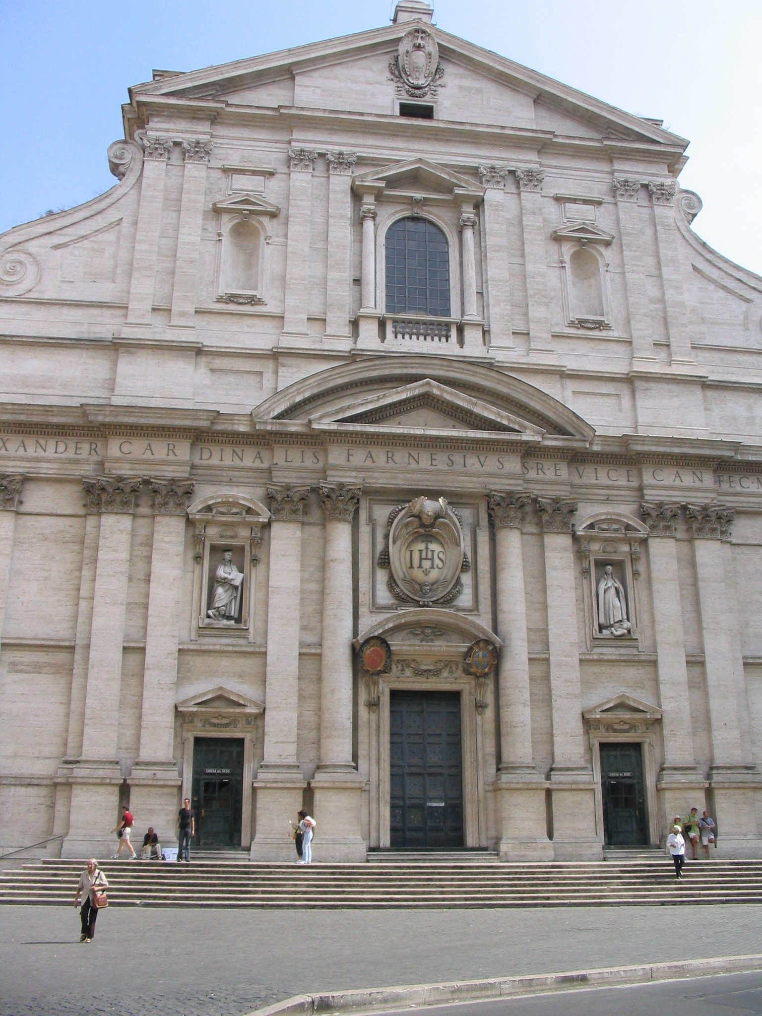 Church of the Gesu in Rome.